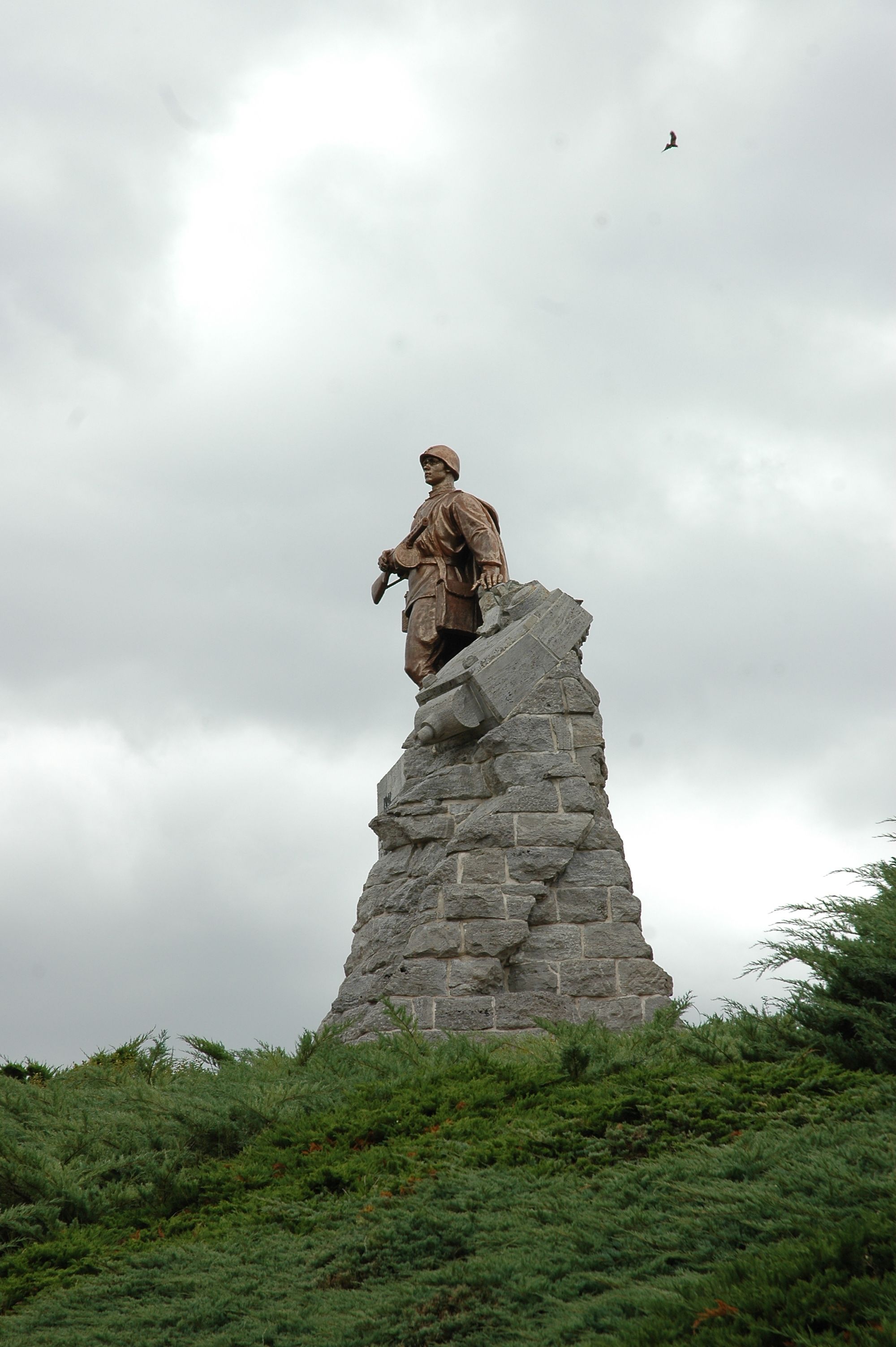 The Russian War Memorial at the Seelow Heights in Germany